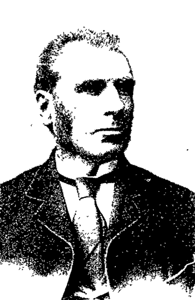 Portrait of Hugh Gourley as published in the Otago Witness on 17 March 1898.